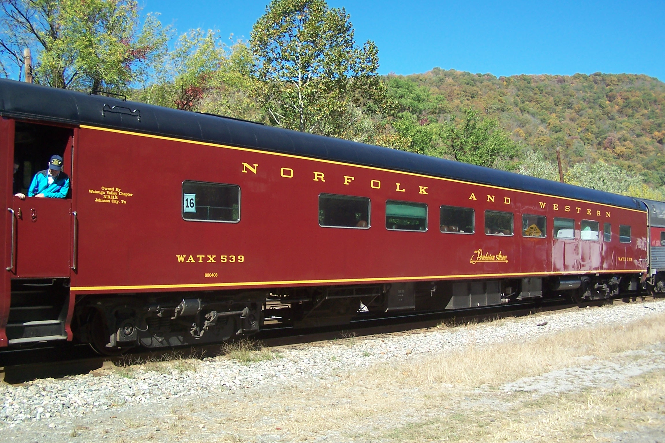 Norfolk and Western Railway Powhatan Arrow passenger car. There were many private cars on this year's New River Train. This shot was taken during the three hour layover in Hinton, WV on October 21st.